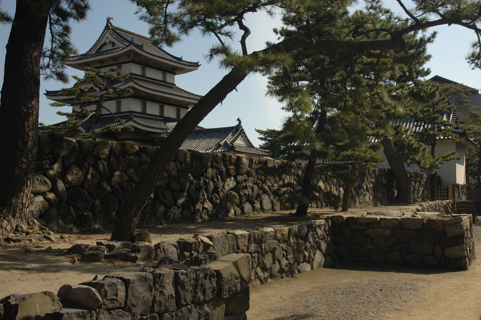 the Tsaukimi tower(Tsukimi-Yagura) and the Watari tower(Watari-yagura) from inside of the castle. They are Japan's national important cultural property.